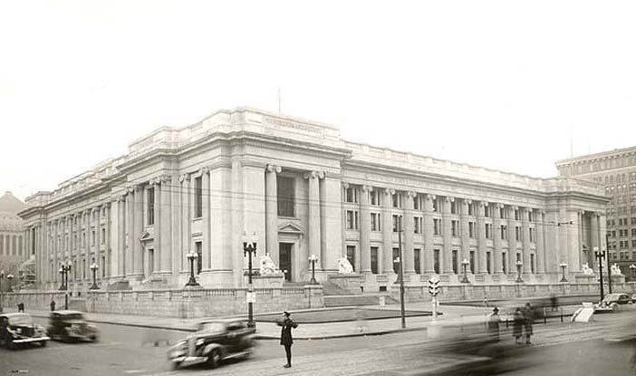 Birch Bayh Federal Building & U.S. Courthouse, a federal courthouse of the United States District Court for the Southern District of Indiana, located in Indianapolis.